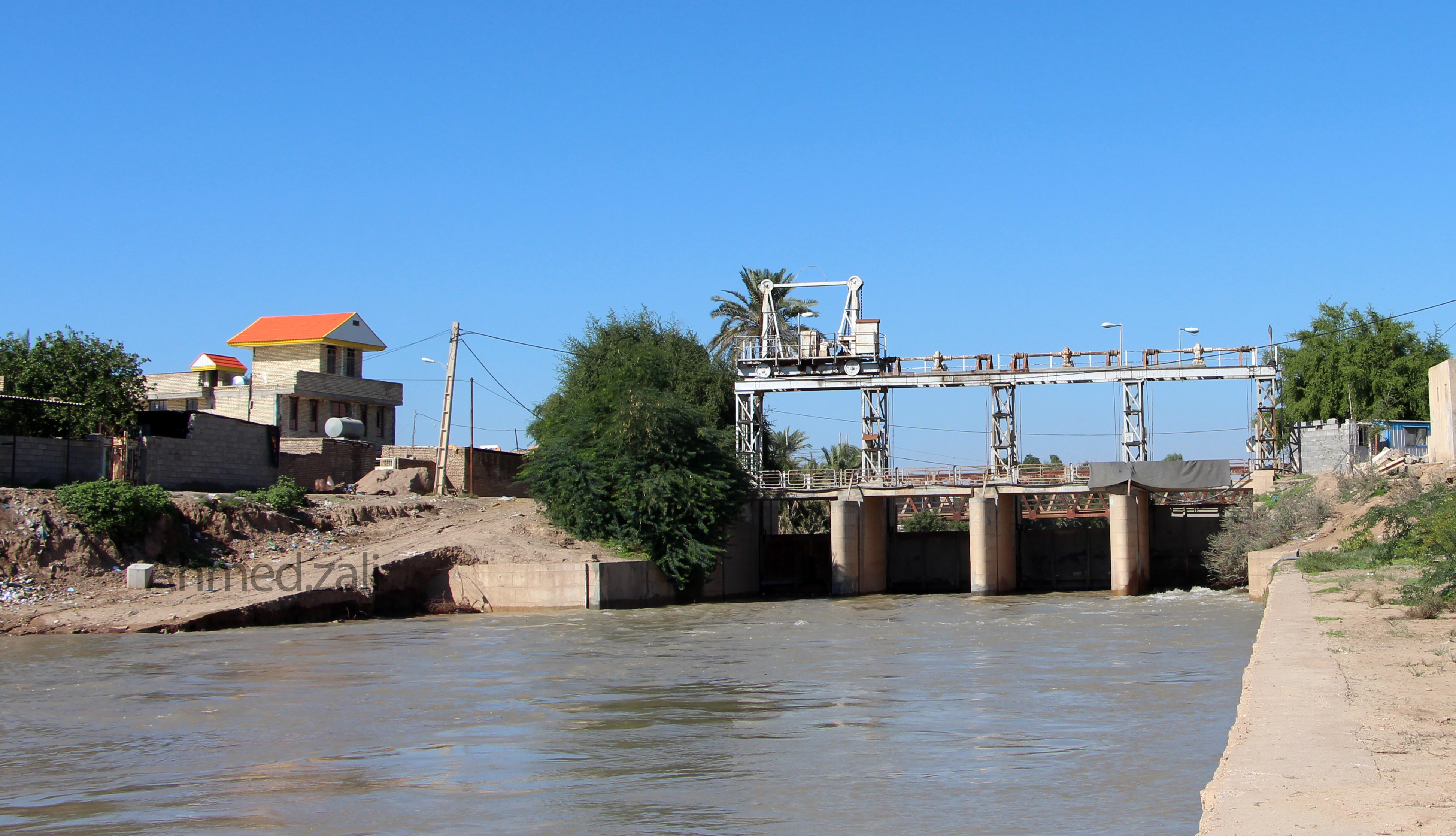 سد شاوور تقریباًدر فاصله 70 کیلومتری از شهر شوش واقع شده است